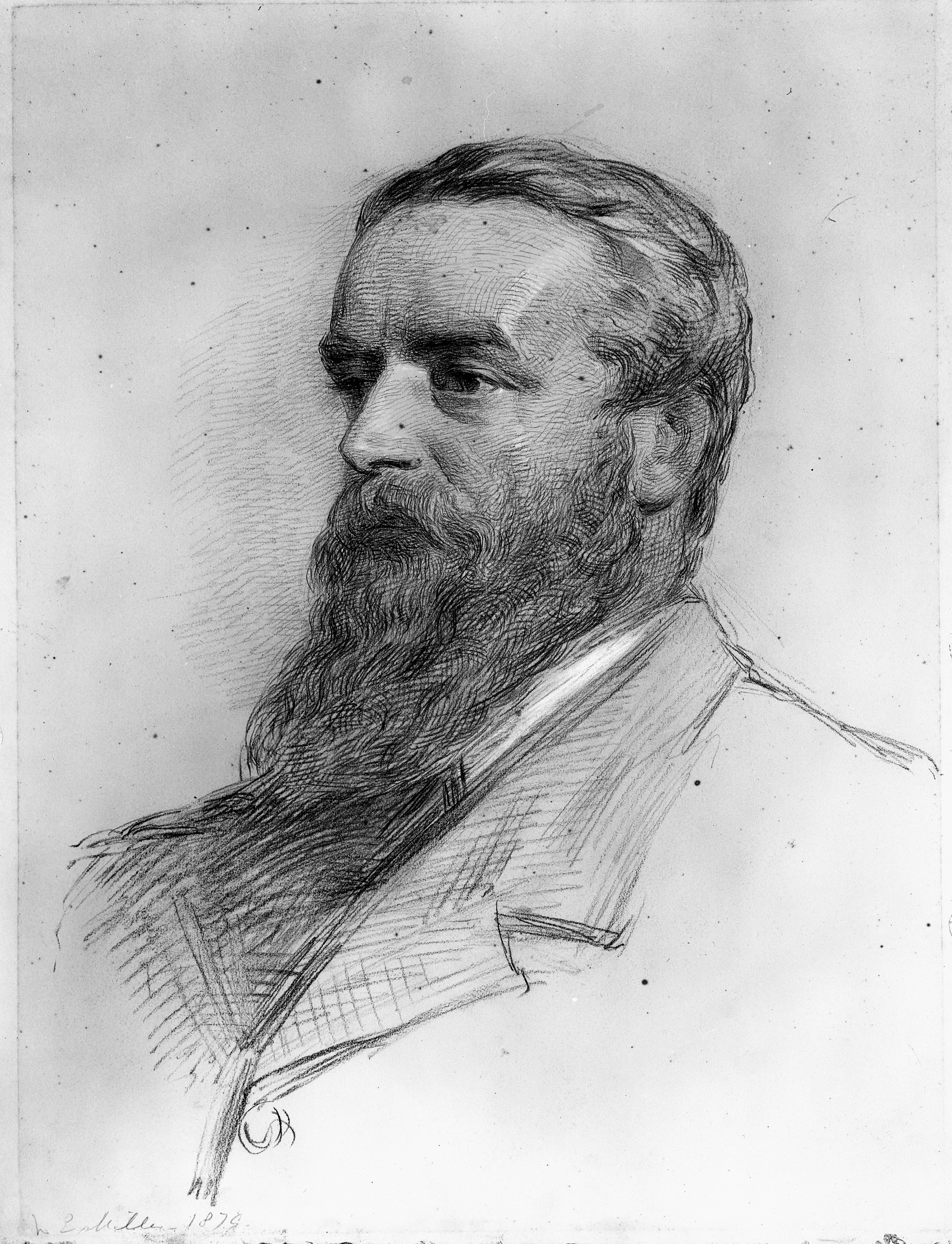 Head and shoulders three-quarters frontal portrait of early South Canterbury runholder C. G. Tripp.